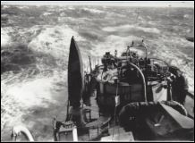 This picture was taken on D-Day. It shows how rough the seas were. Note the white caps. Courtesy of William Kesnick